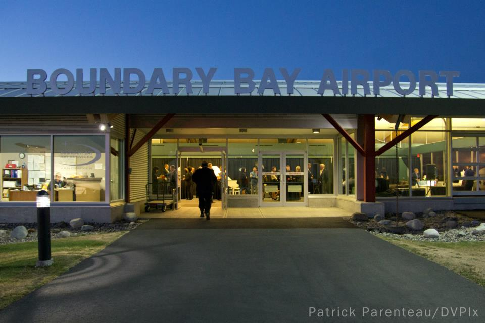 Boundary Bay Airport Main Terminal